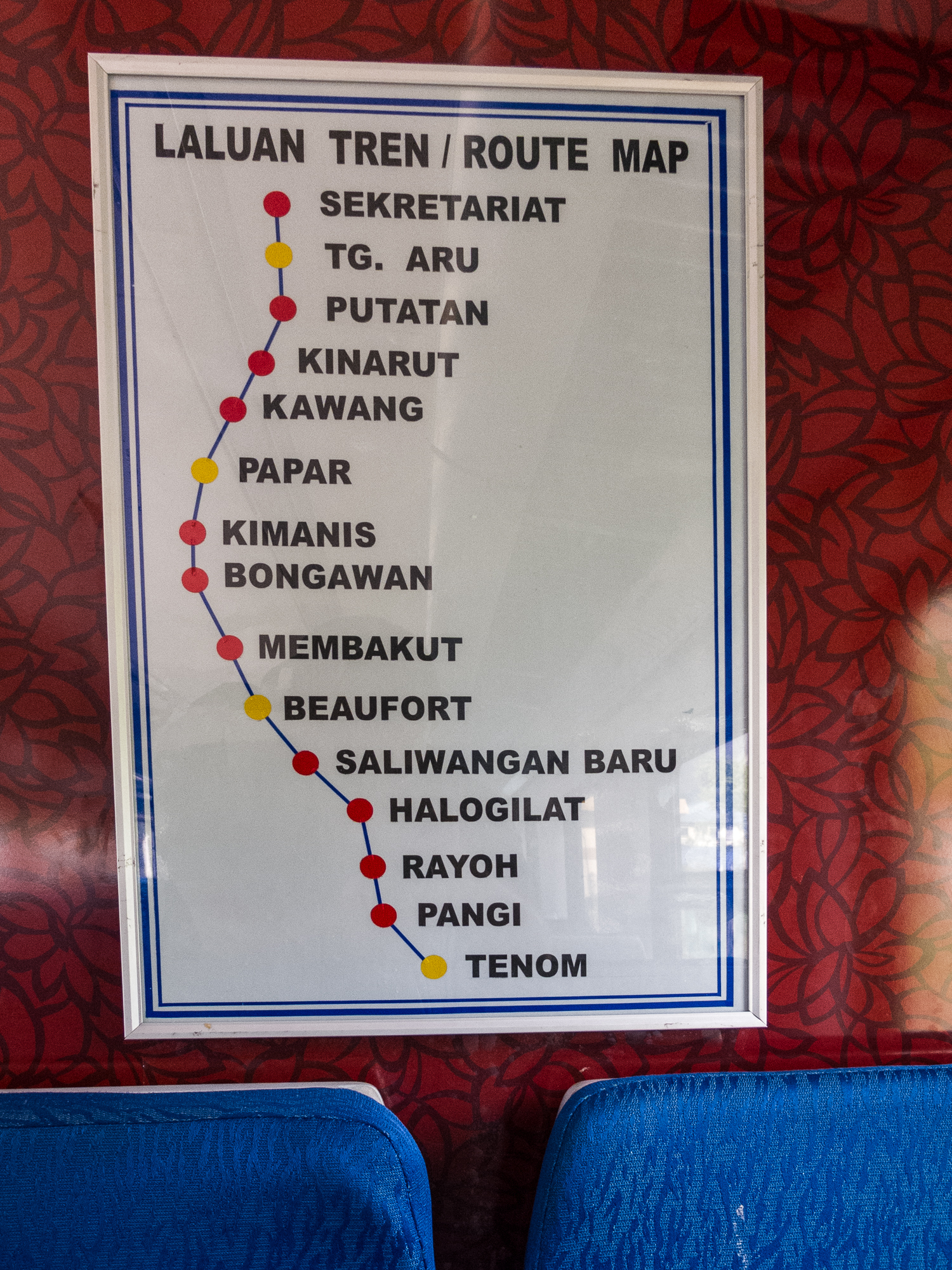 Sabah State Railways: Station list in a new passenger car